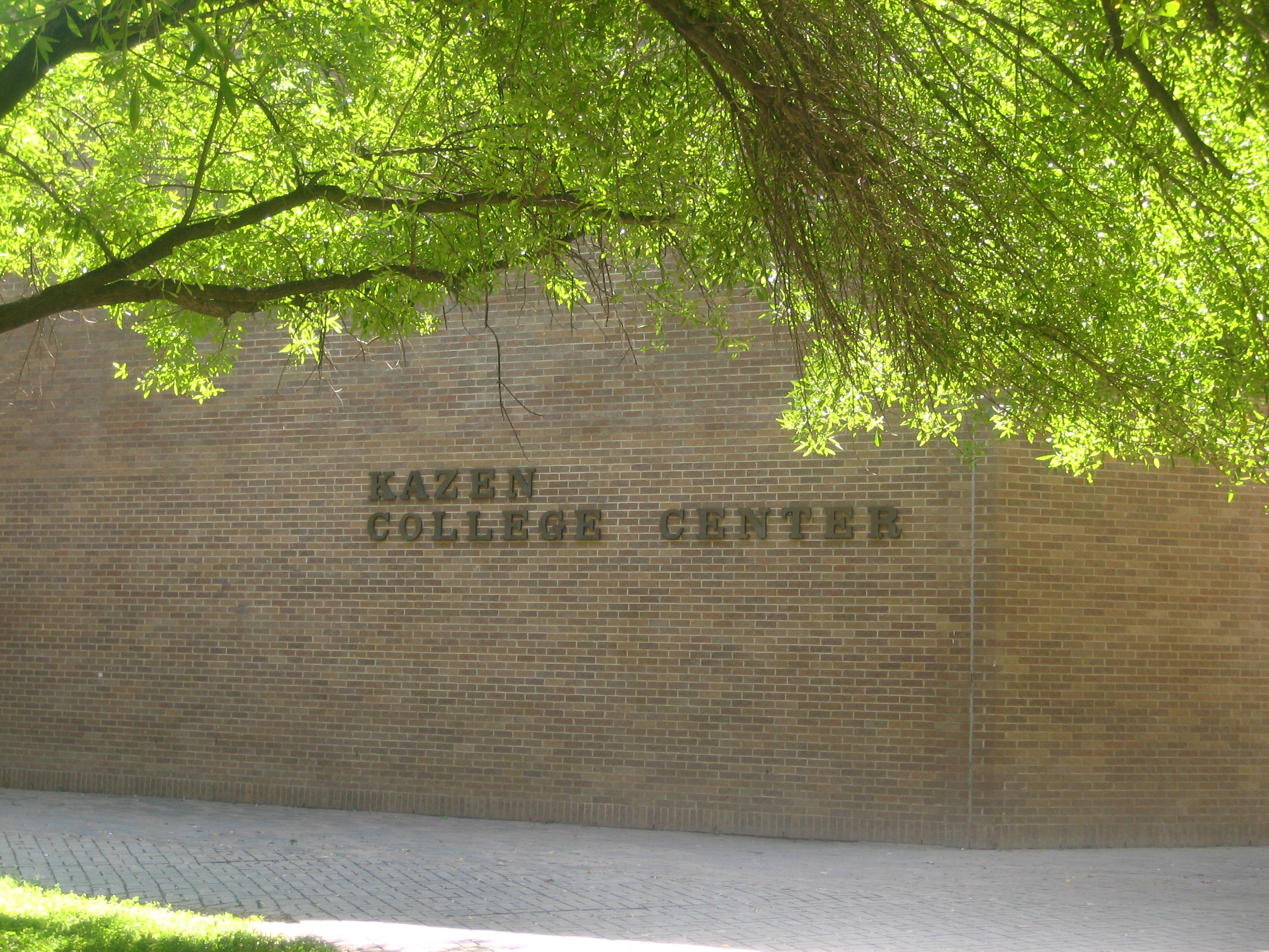 I took photo on Oct. 22, 2008.Billy Hathorn (talk) 22:47, 22 October 2008 (UTC)